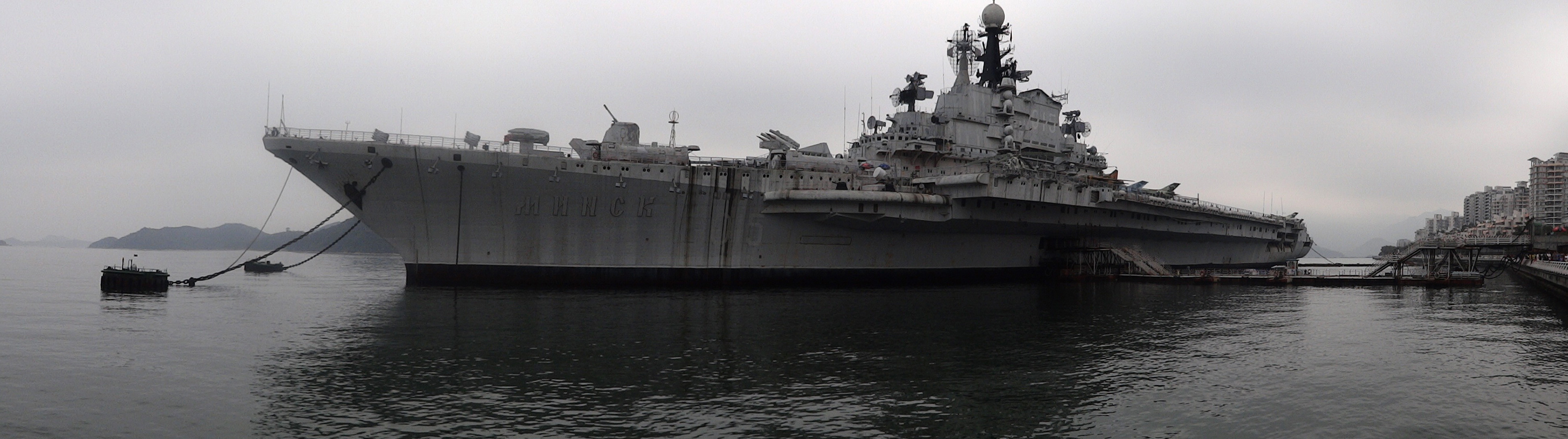 Panorama of the Soviet Aircraft Carrier Minsk at (CITIC) Minsk World, Shenzhen, China